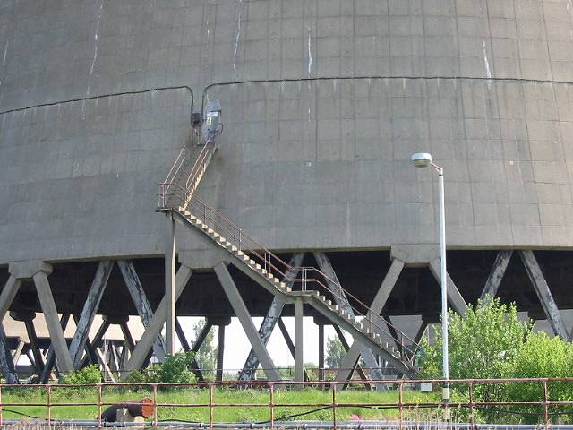 Stairway to nowhere? It is only when you get this close to the cooling towers you realise how immense they are. The stairs lead to a doorway which is only a fraction of the way up the tower.